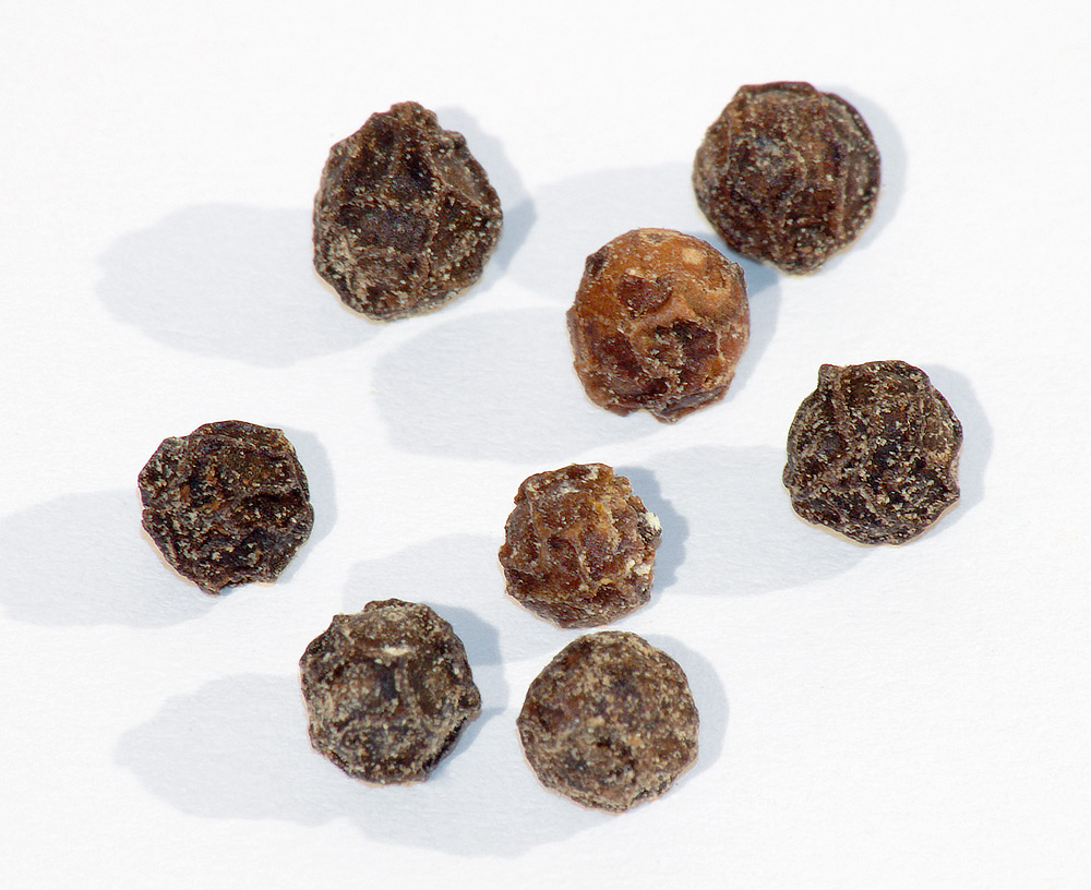 This image shows black pepper.